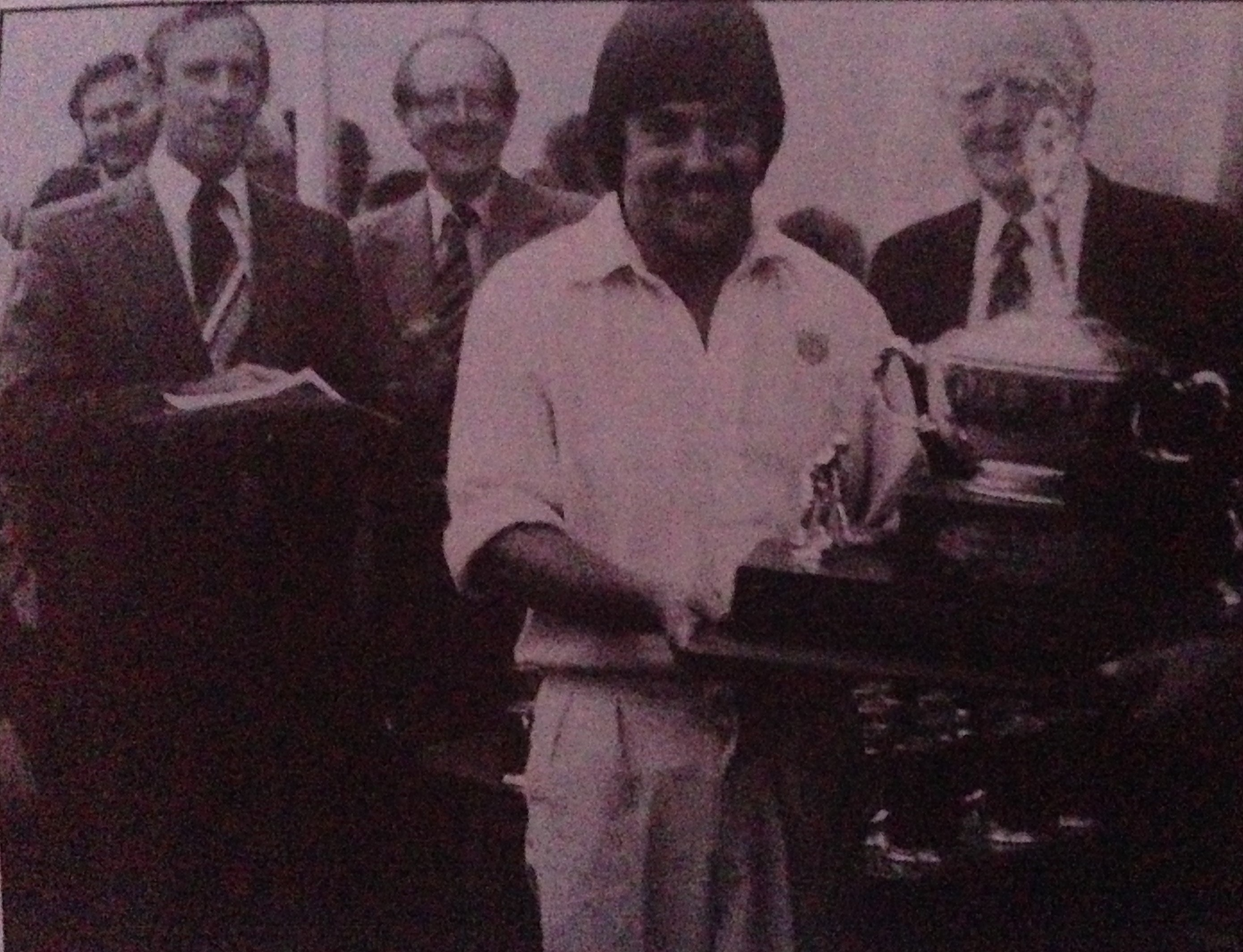 Ken Crofton receiving the Cheshire Cup.